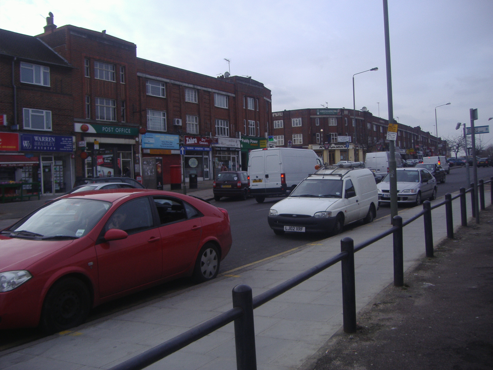 Shops on Edgware Road, Colindale